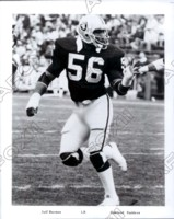 A press photograph of Oakland Raiders linebacker Jeff Barnes during the 1979 season. }